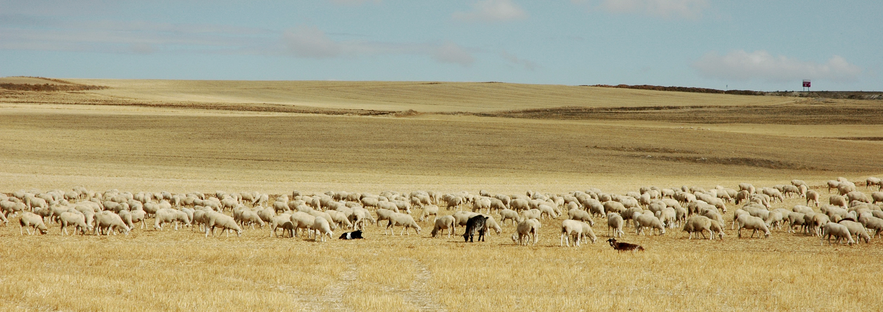 Sheep on the meseta, Spain